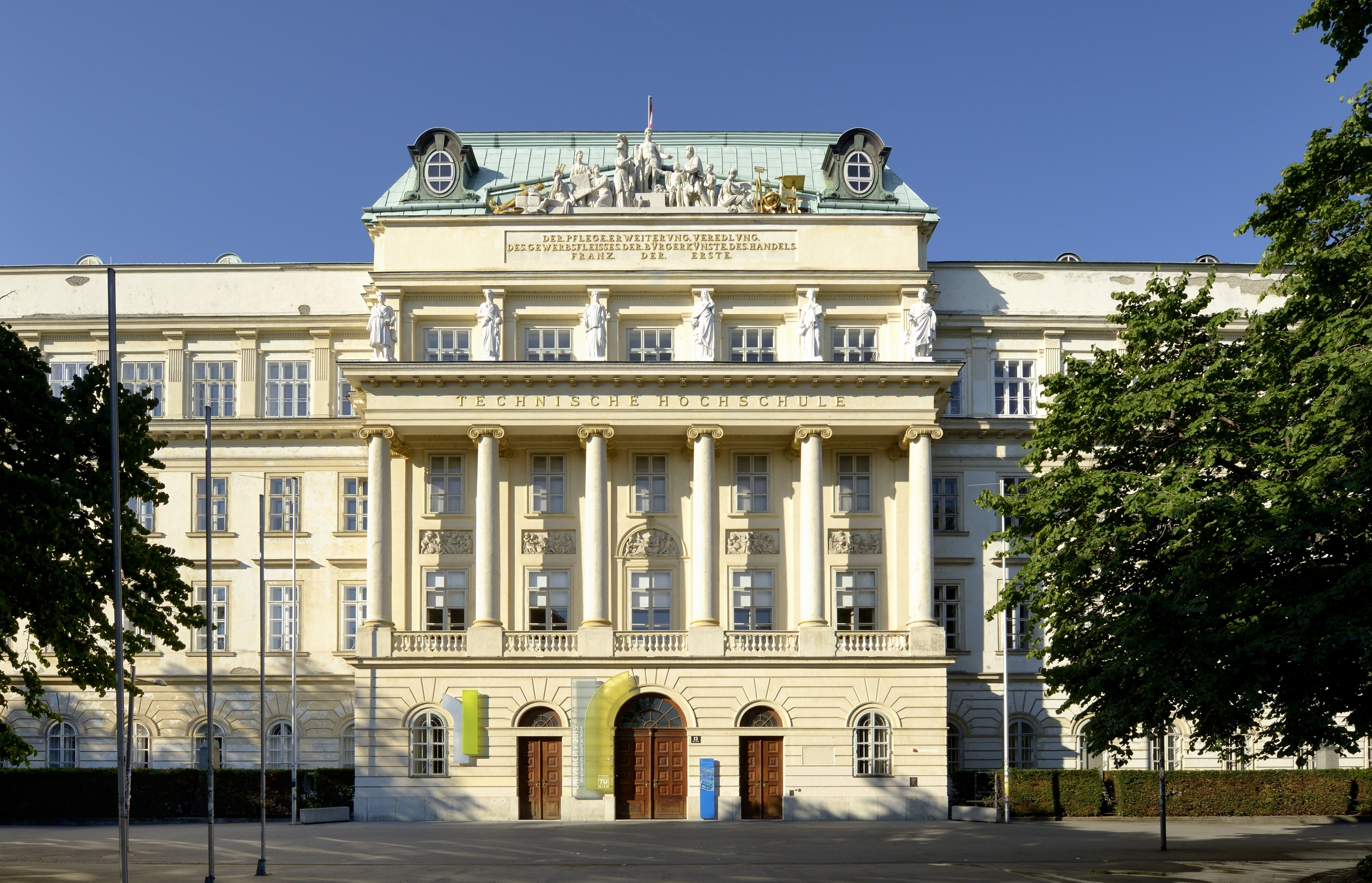 TU Wien, main building; to the left and right the natural monument Baumhaseln